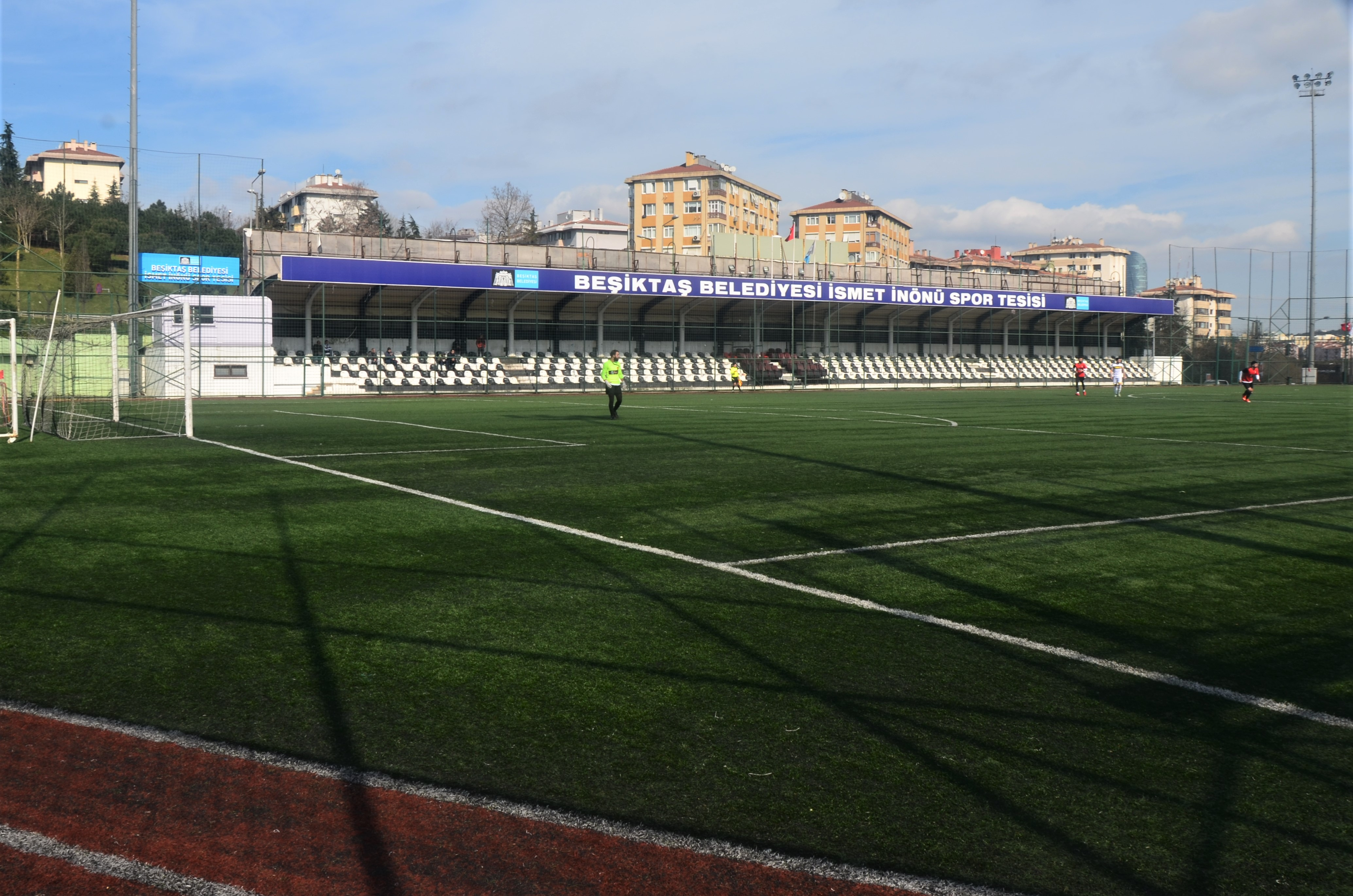 İsmet İnönü Stadium of Beliktaş Municipality in Istanbul, Turkey